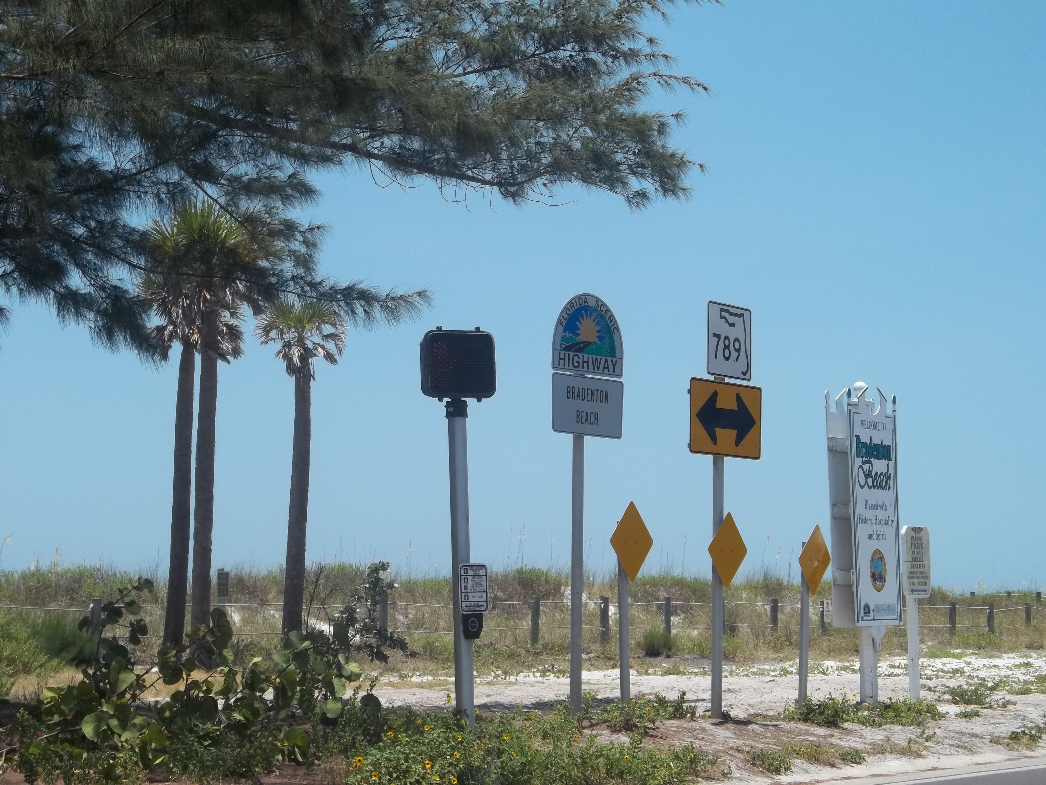 Bradenton Beach, Florida: Florida State Road 789: Sign